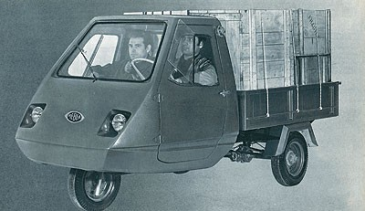 Picture of MEBEA ST150 light truck from my book 'Made in Greece'